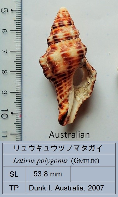 53.8 mm, washed shell at the beech of Dunk Island, 2007